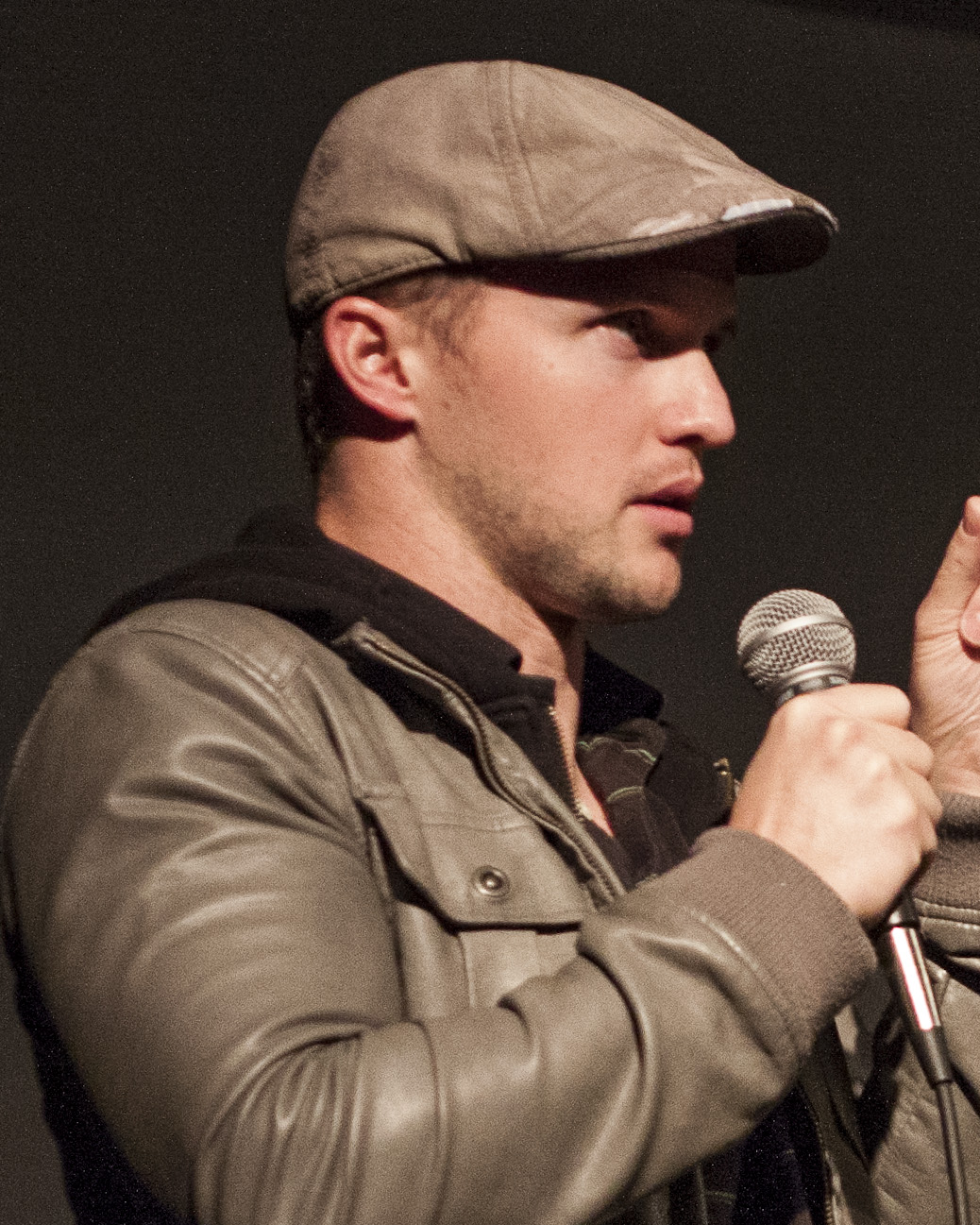 (May 14, 2014) William Eubank appeared in person at the Brattle Theatre to discuss his new film, The Signal.